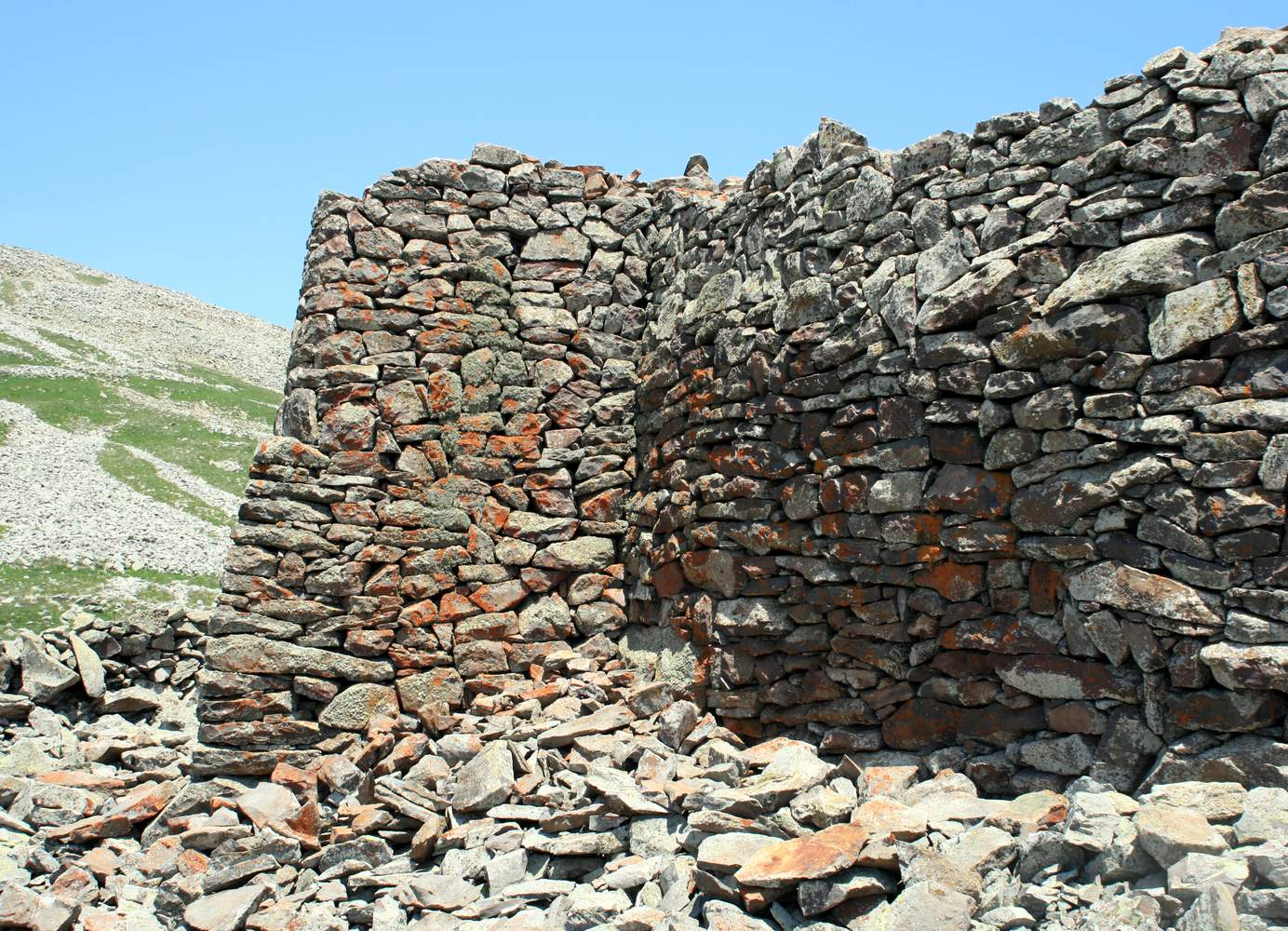 Abuli megalithic fortress, Georgia